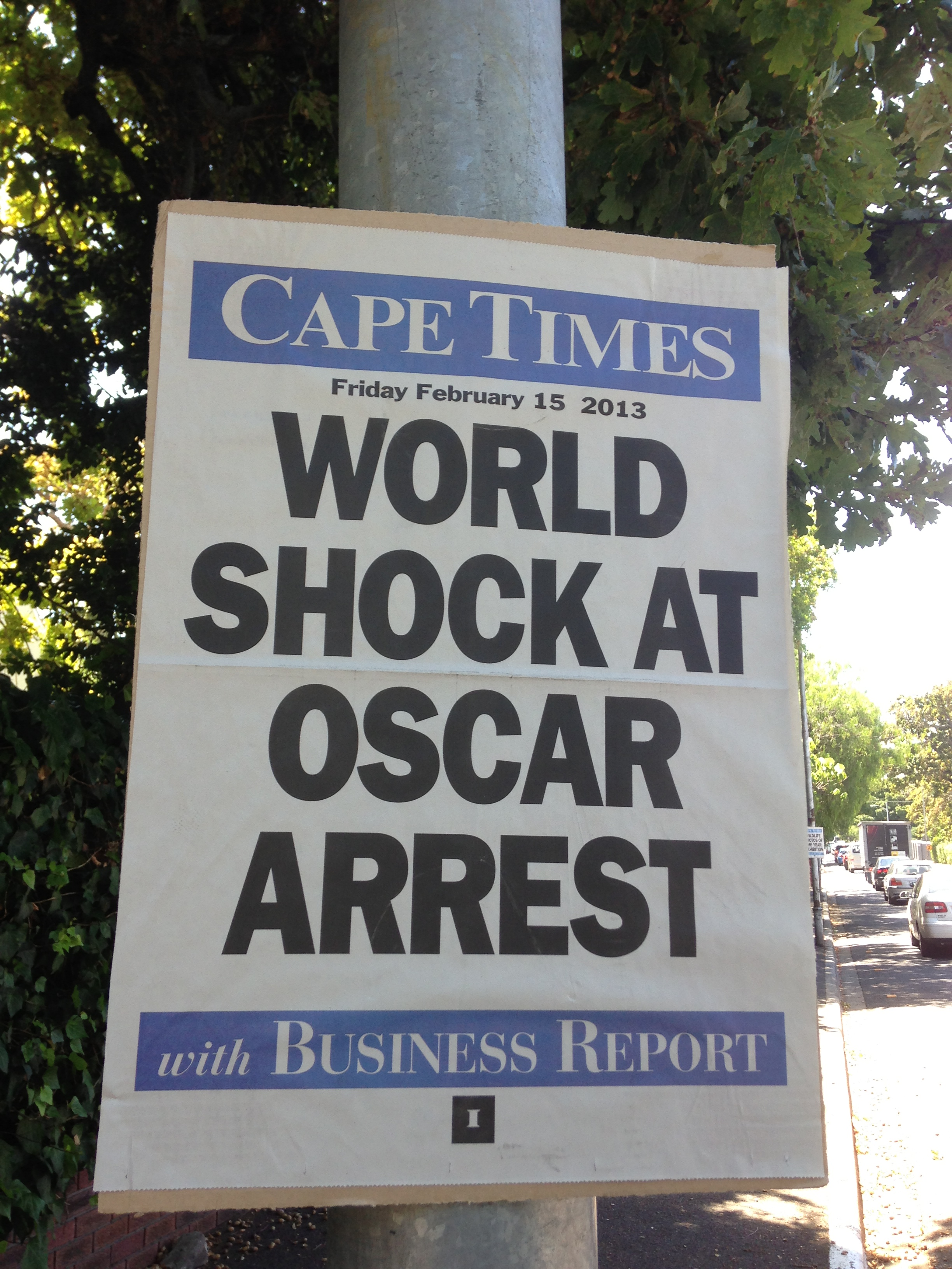 A Cape Times newspaper poster in Cape Town, South Africa, about the arrest of Oscar Pistorius on 15 February 2014.